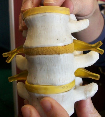 Dr. Karyn Marshall demonstrates what a healthy spine should look like by using a model. The vertebrae (white) should be aligned and should not be pinching any nerves